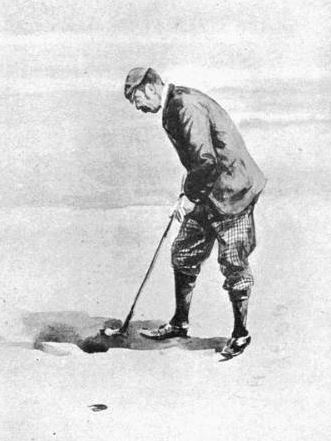 A circa 1880 watercolor drawing of Allan Macfie by Thomas Hodge (1827-1907).